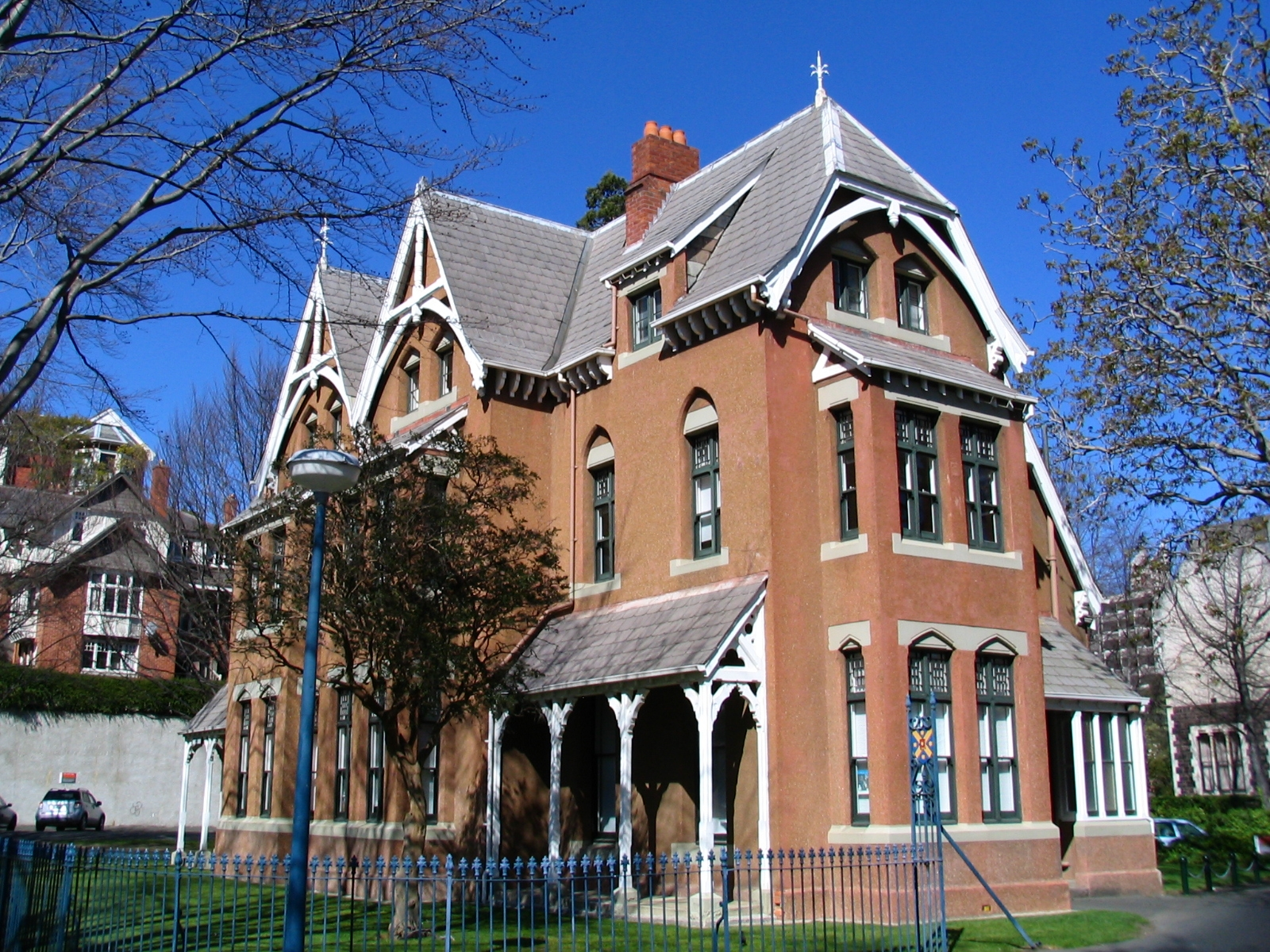 University of Otago Professorial House, Dunedin, New Zealand. There is an indentical building to the immediate right of this photo. A plaque on the other building reads "These four professorial houses were among the buildings designed by Maxwell Bury for the University and were built in 1879"